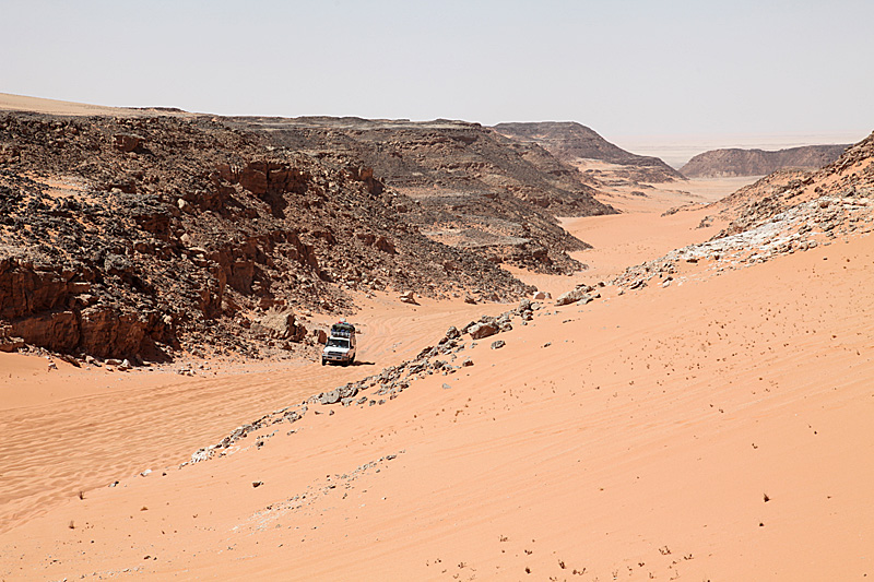 Aqaba pass, Gilf Kebir Plateau, Western Desert, Egypt